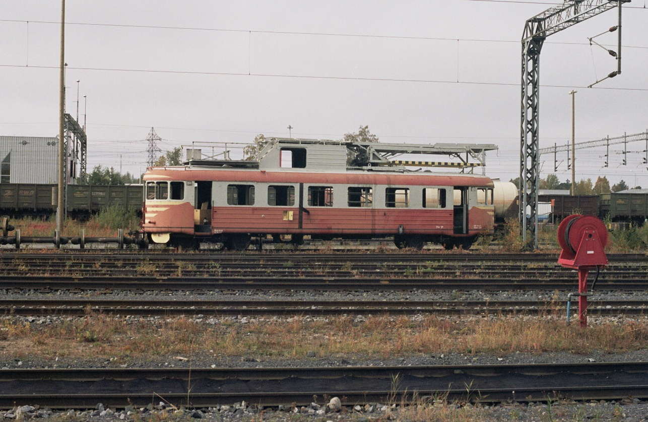 A catenary (?) maintenance car, VR class Ttv, in the VR depot at the city of Oulu in Finland. The car is a modified version of the Finnish Dm7 class railbus.